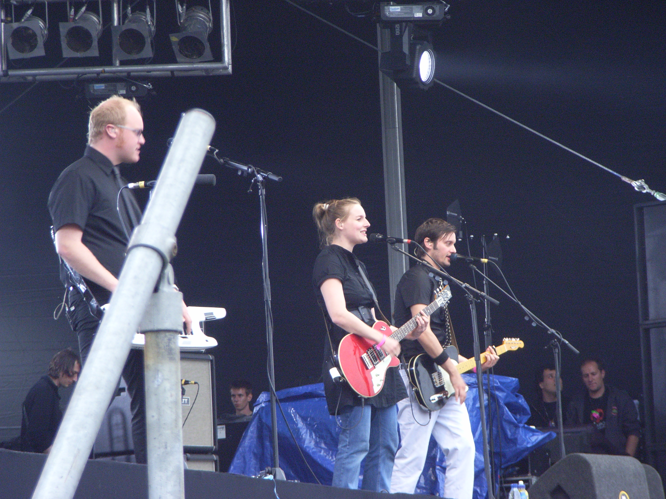 Wir Sind Helden at Pinkpop 2007